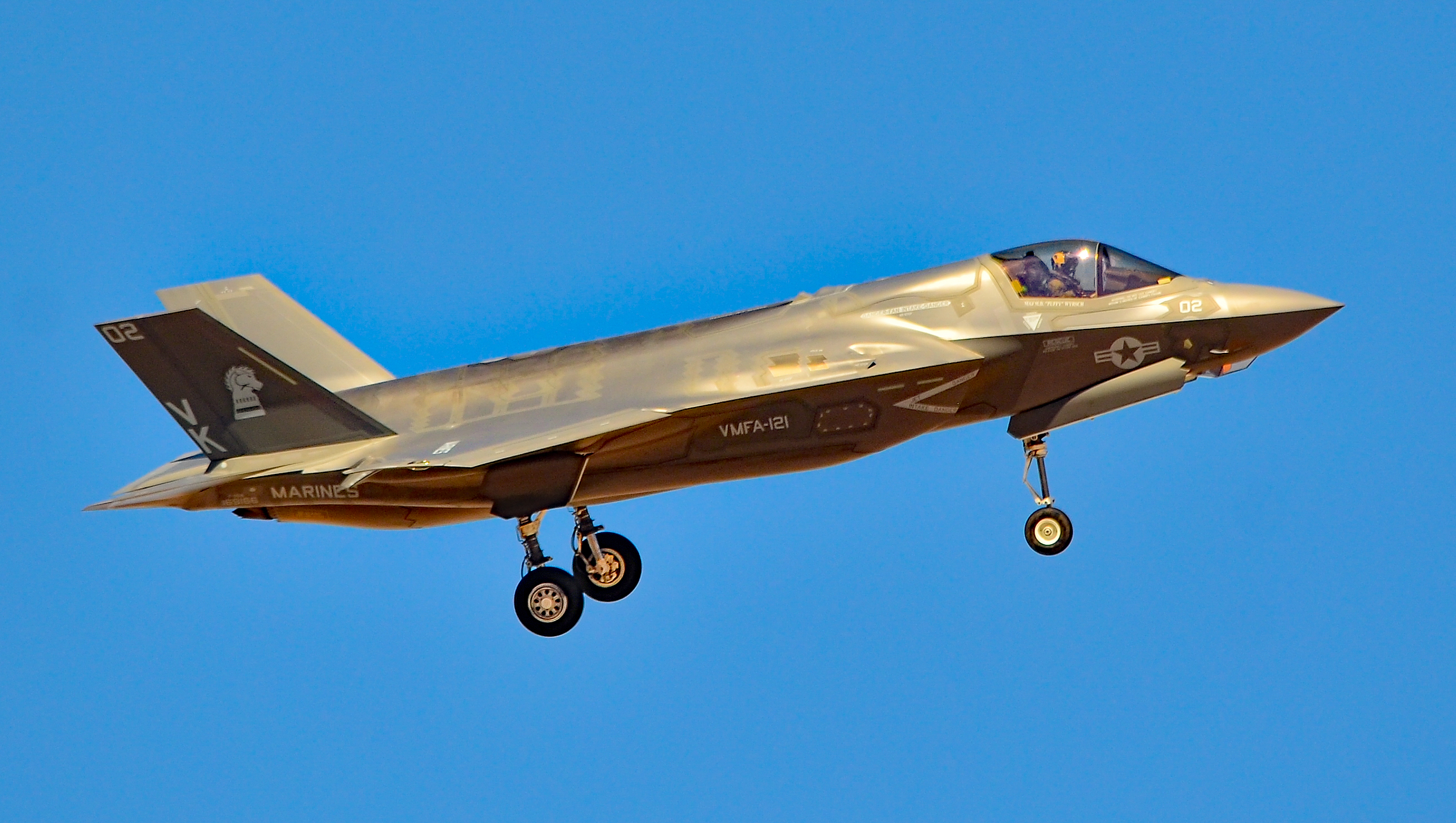 Marine Corps Air Station Yuma, Arizona Red Flag 16-3 Las Vegas - Nellis AFB (LSV / KLSV) TDelCoro July 19, 2016